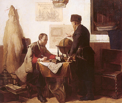 Painting of Barentsz and Heemskerk